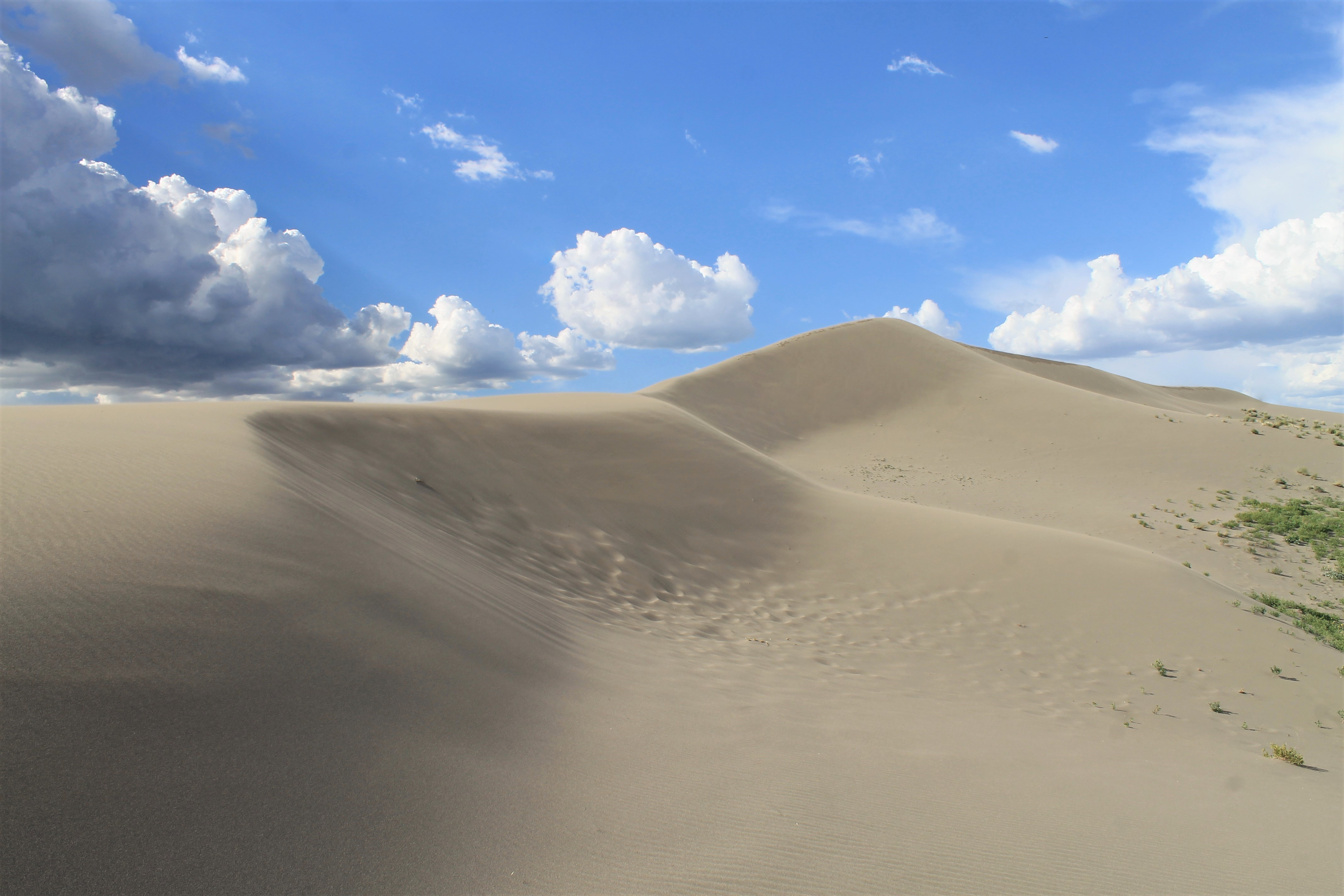 This is a photo of the sand dunes at Bruneau Dunes State Park.